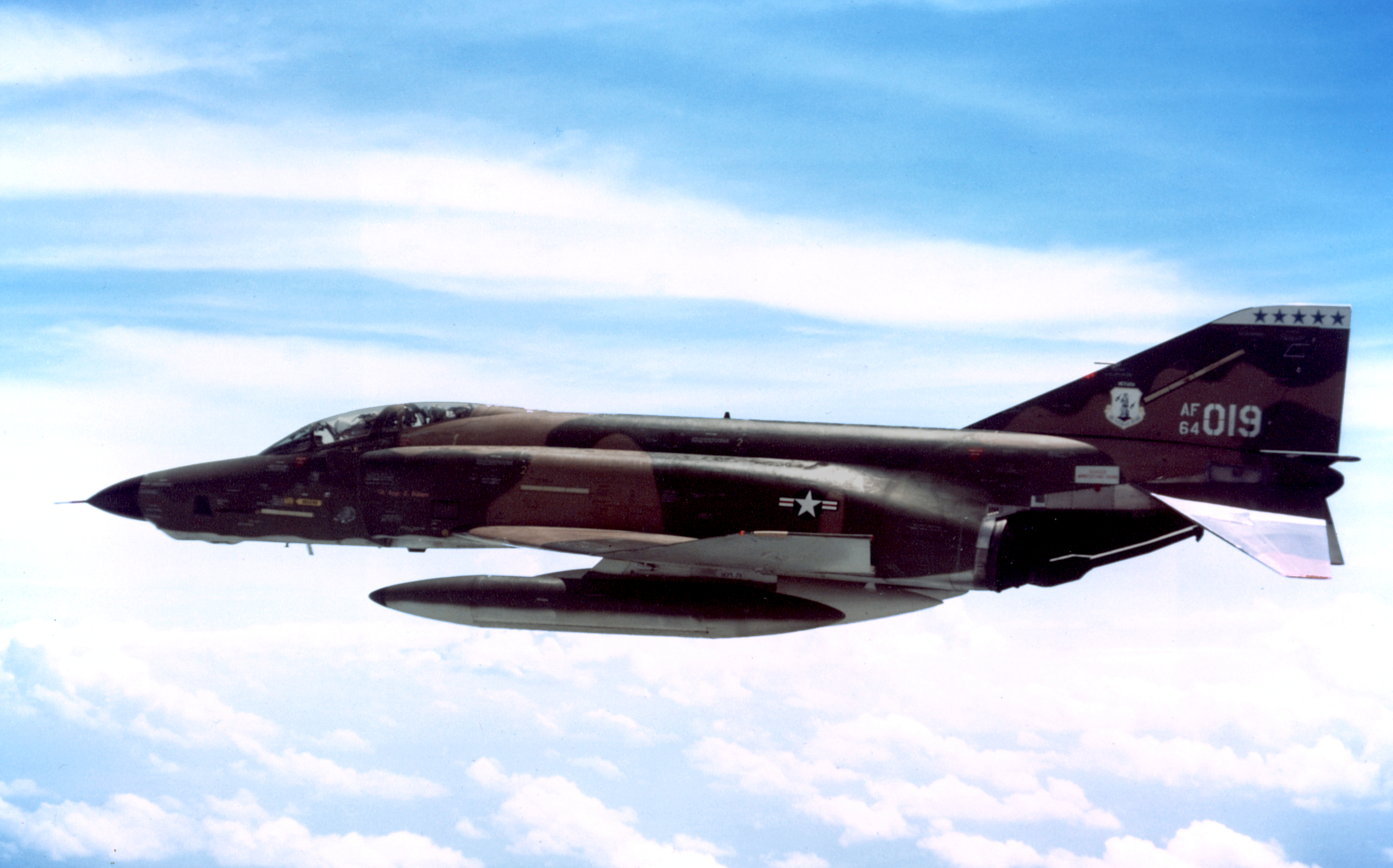 A U.S. Air Force McDonnell Douglas RF-4C Phantom II with auxiliary fuel tanks in flight August 1968. The aircraft was assigned to the 192nd Tactical Reconnaissance Squadron, Nevada Air National Guard.